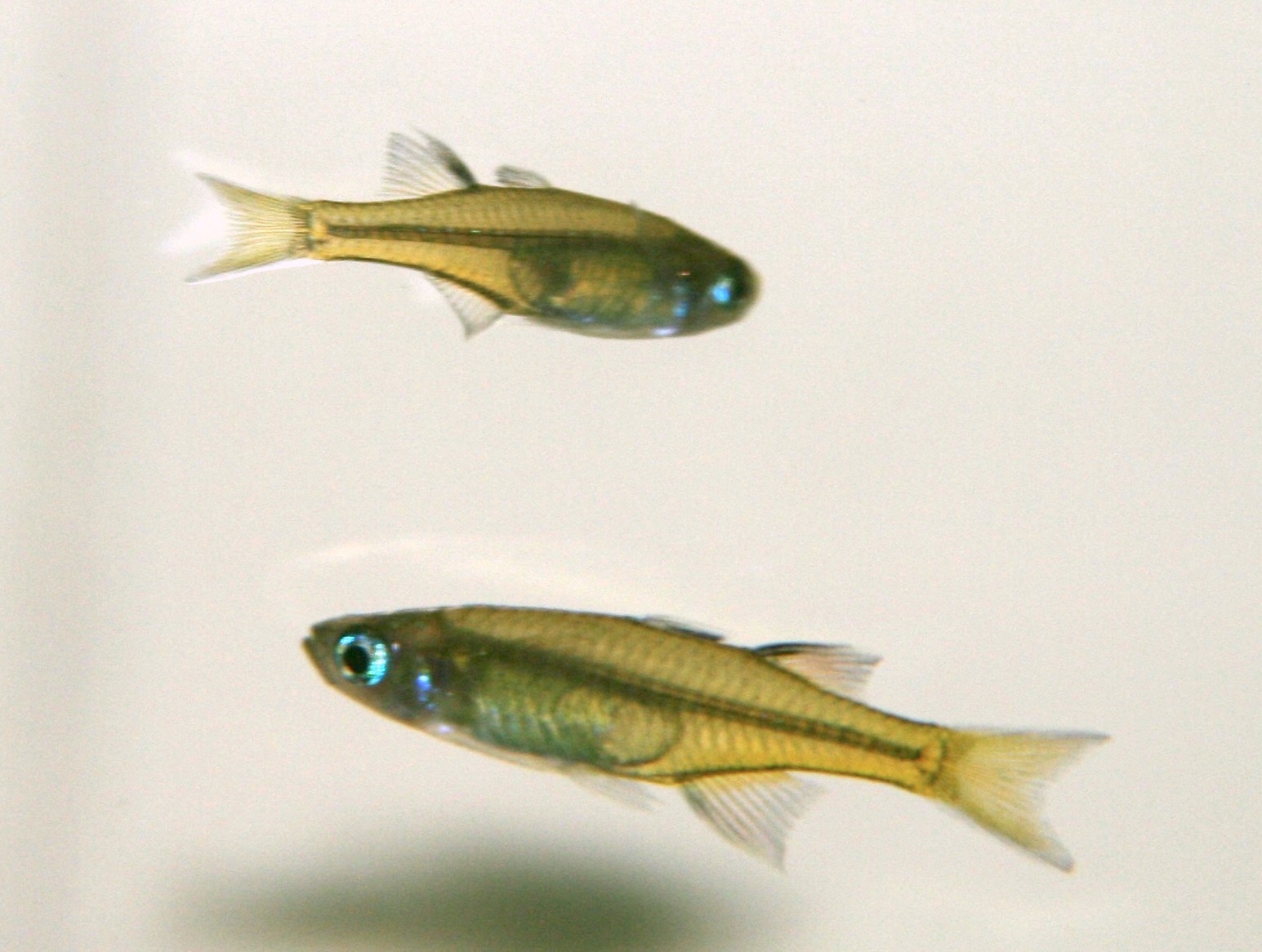 Pending confirmation - I think these are Pacific blue-eyes (Pseudomugil signifer)